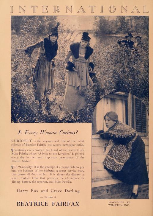 Advertisement in Moving Picture World for the American film serial Beatrice Fairfax.